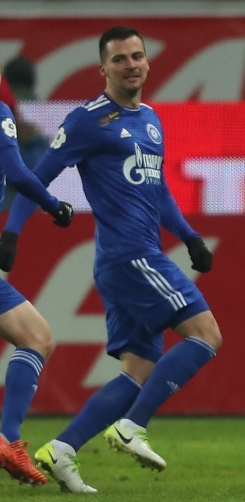 Đorđe Despotović with FC Orenburg in a game against FC Lokomotiv Moscow.